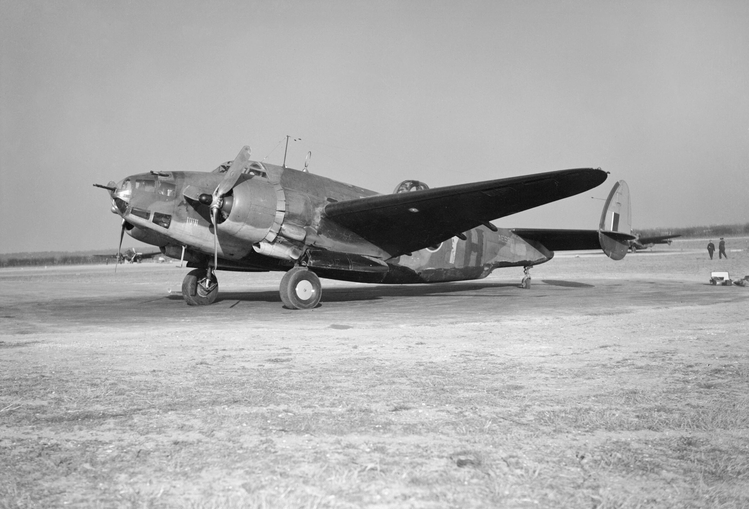 Lockheed Ventura Mk I of No. 21 Squadron RAF at Methwold, Norfolk, 27 February 1943. Ventura Mark I, AE660 ‘YH-Y’, of No. 21 Squadron RAF, on the ground at Methwold, Norfolk, wearing the special markings applied to “Eastland” aircraft during Exercise SPARTAN.